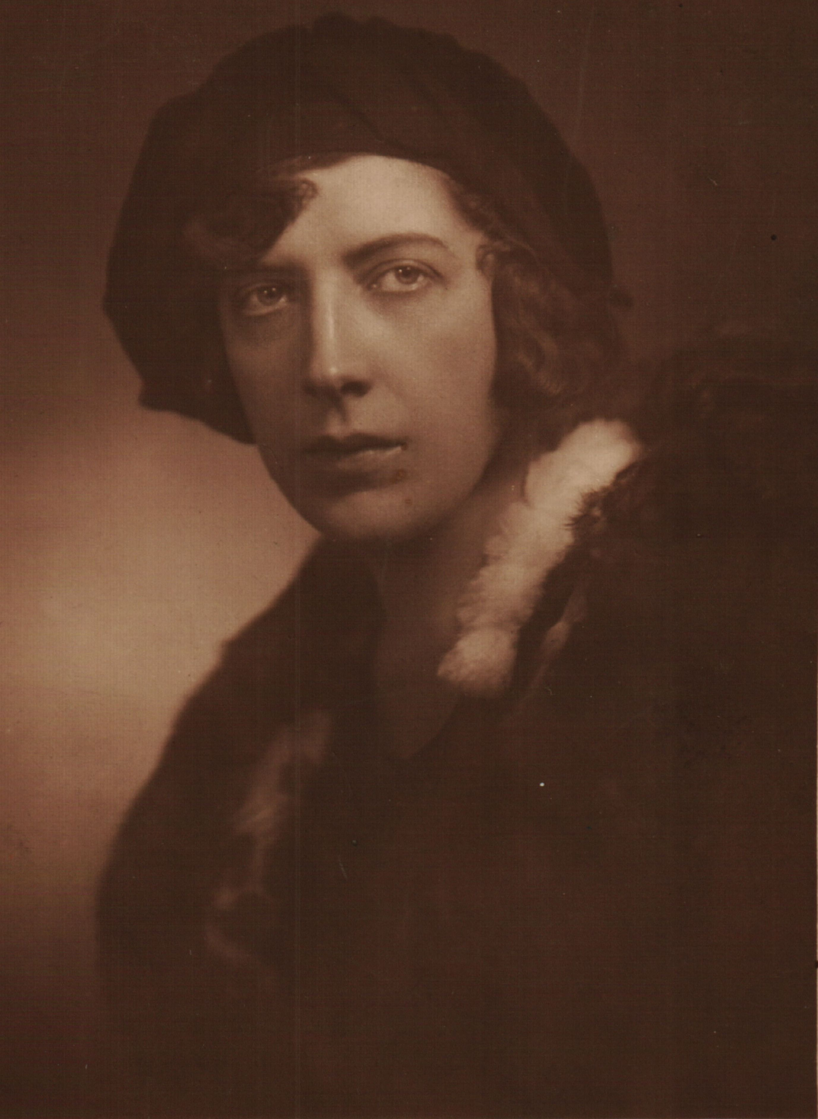 Bulgarian writer Anna Kamenova